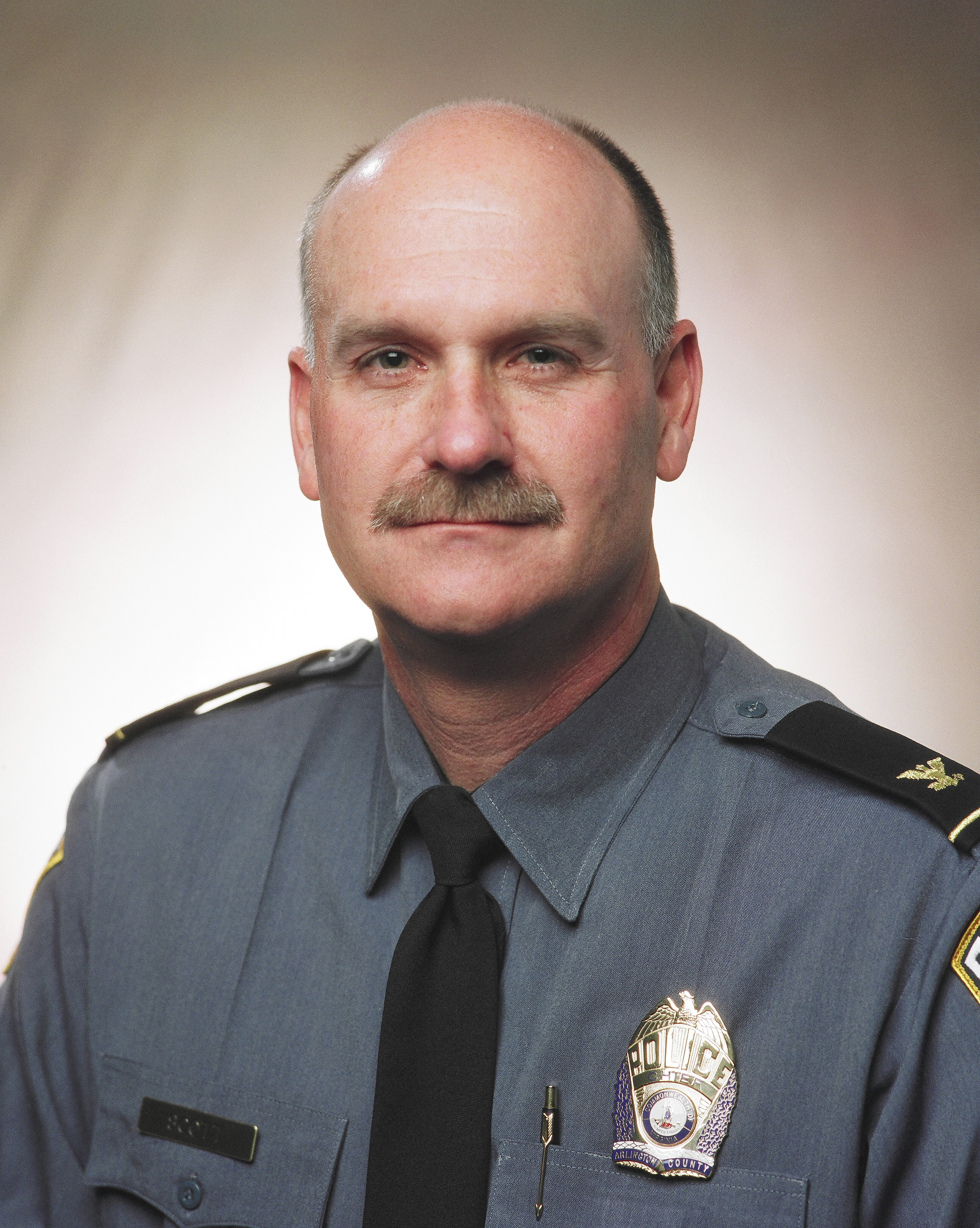 Douglas Scott, Police Chief